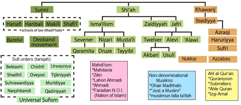 muslim self-identification